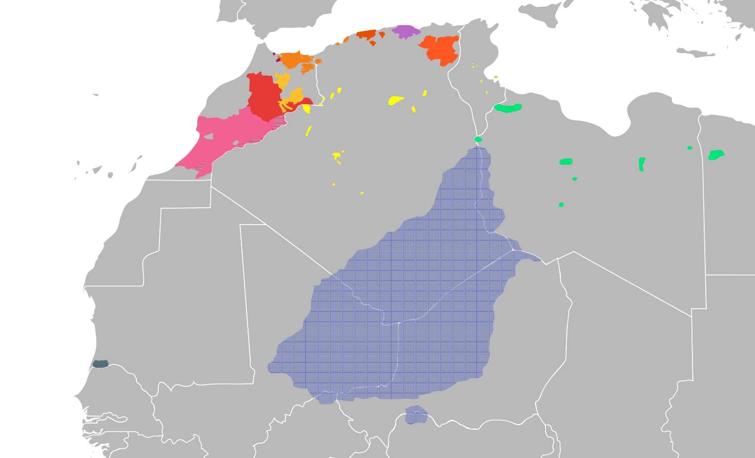 map of berber languages Northern Berber Kabyle Kayble (Taqbaylit) Atlas Central Atlas Tamazight (Tamaziɣt) Shilha (Tacelḥit) Senhaja de Srair & Ghomara Zenati Riffian (Tarifit) Ayt Seghrouchen & Ayt Warayn Shenwa Shawiya Other Zenati (Mzab-Wargla, East Zenati) Western Berber Zenaga (Tuḍḍungiyya) Eastern Berber Eastern Berber (Siwi, Nafusi, Sokna, Ghadamès, Awjila) Tuareg Tuareg (Tamasheq)